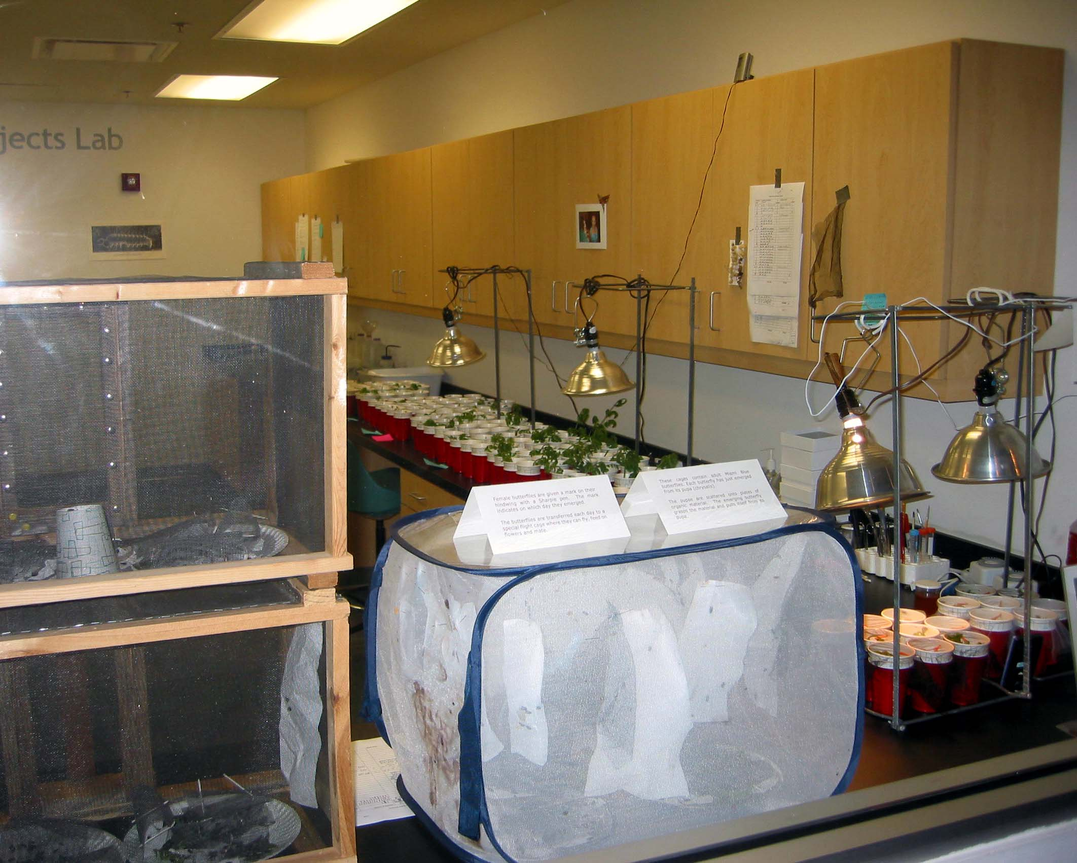 Lab in the the Maguire Center, Gainesville, Florida.